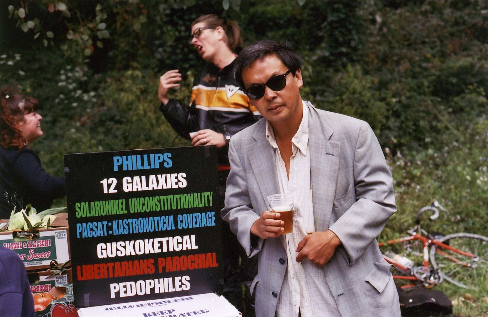 Frank Chu at Marx Meadows, Golden Gate Park, July 3, 2004, attending the "Independent's Day" independent messenger company (Docket Rocket, Theresa's Messenger, Zoom, Quake, Cupid) barbecue. Original photo by Chris Stevens.